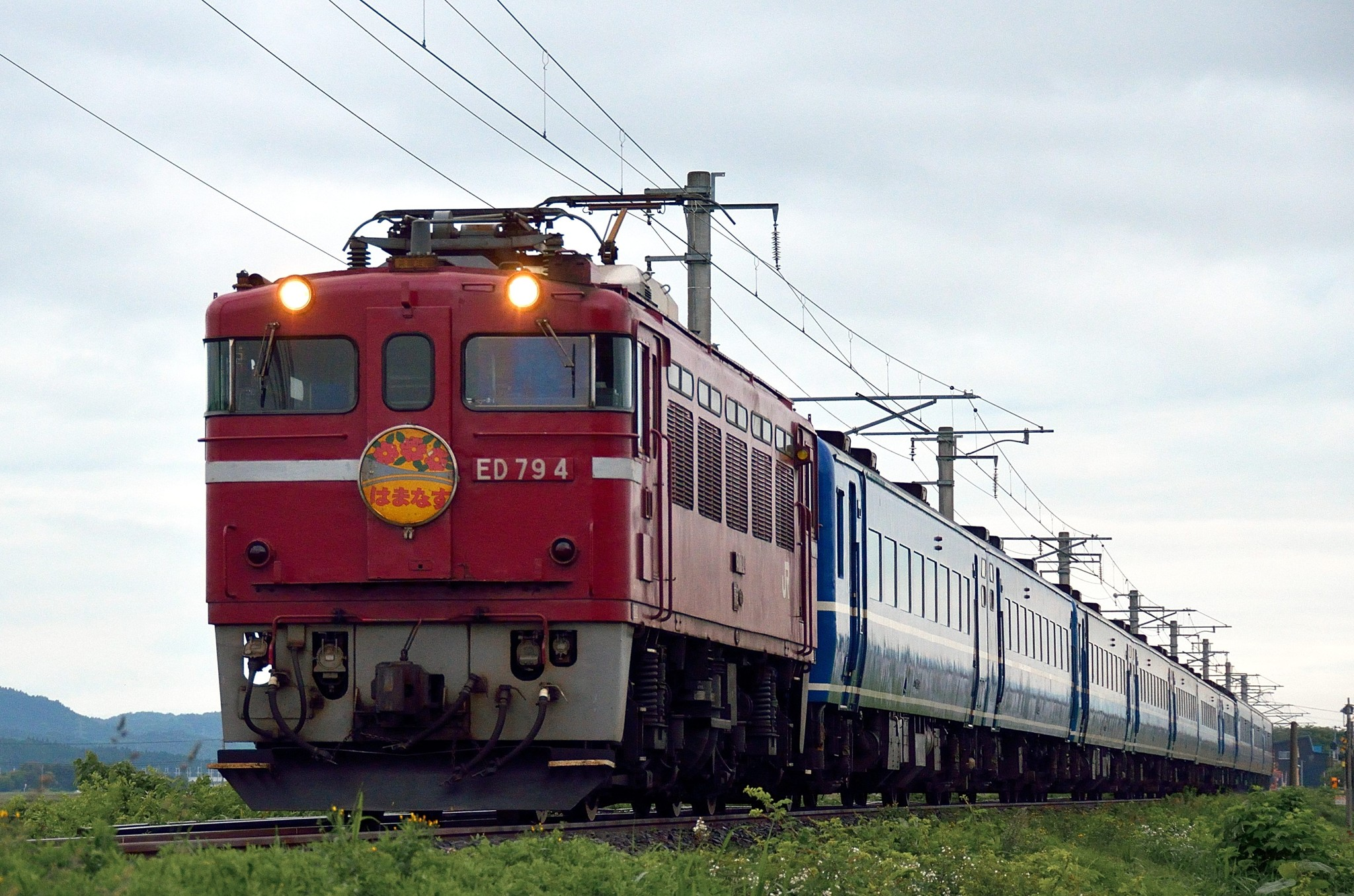 JR Hokkaido Class ED79 electric locomotive ED79 4 hauling the Hamanasu overnight service